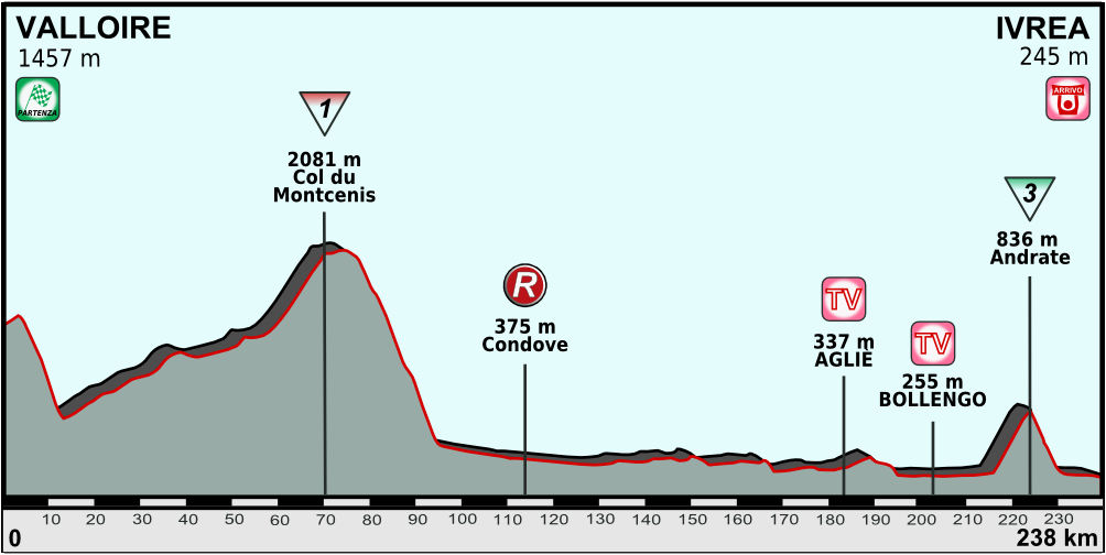 Giro d'Italia 2013 - stage profile # 16